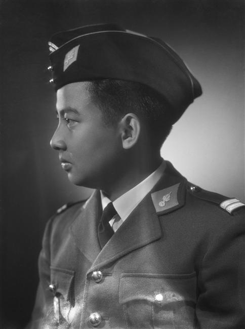 Studio photo